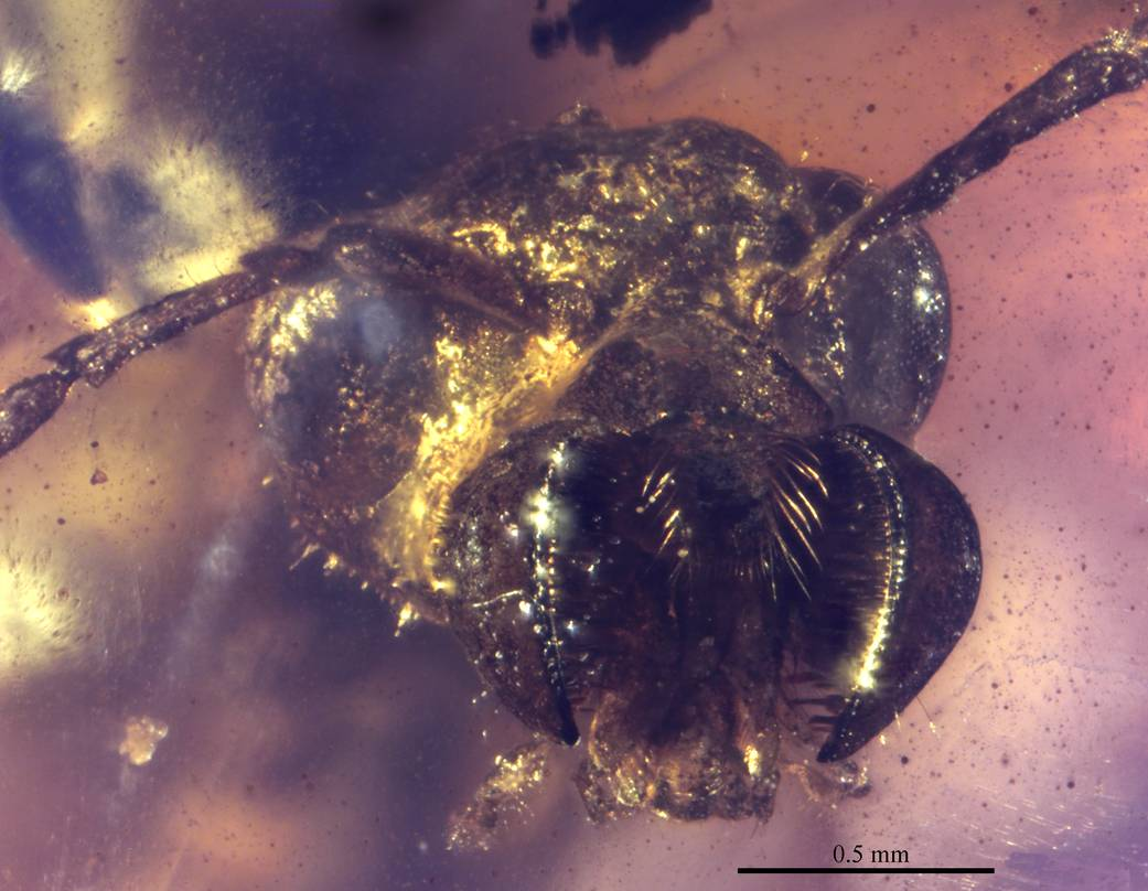 Frontal view of the Camelomecia janovitzi holotype queen head. Burmese amber, Earliest Cenomanian; Kachin State, Myanmar American Museum of Natural History specimen AMNH-BUTJ003